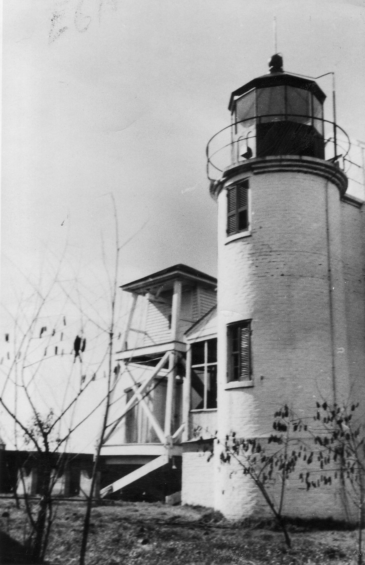 Pass Manchac Lighthouse, Lake Pontchartrain, LA